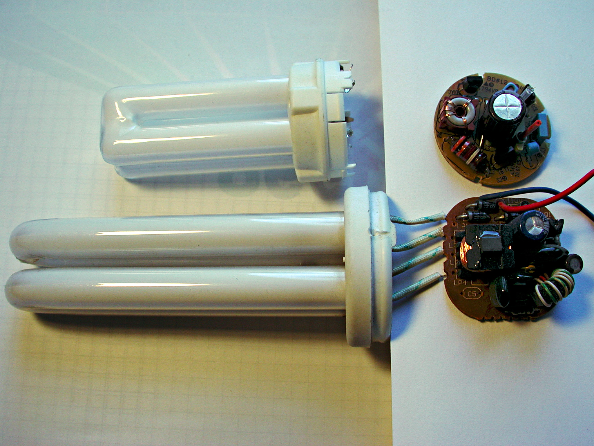 Lamp & ballast of an very cheap (bad) and an modern CFL